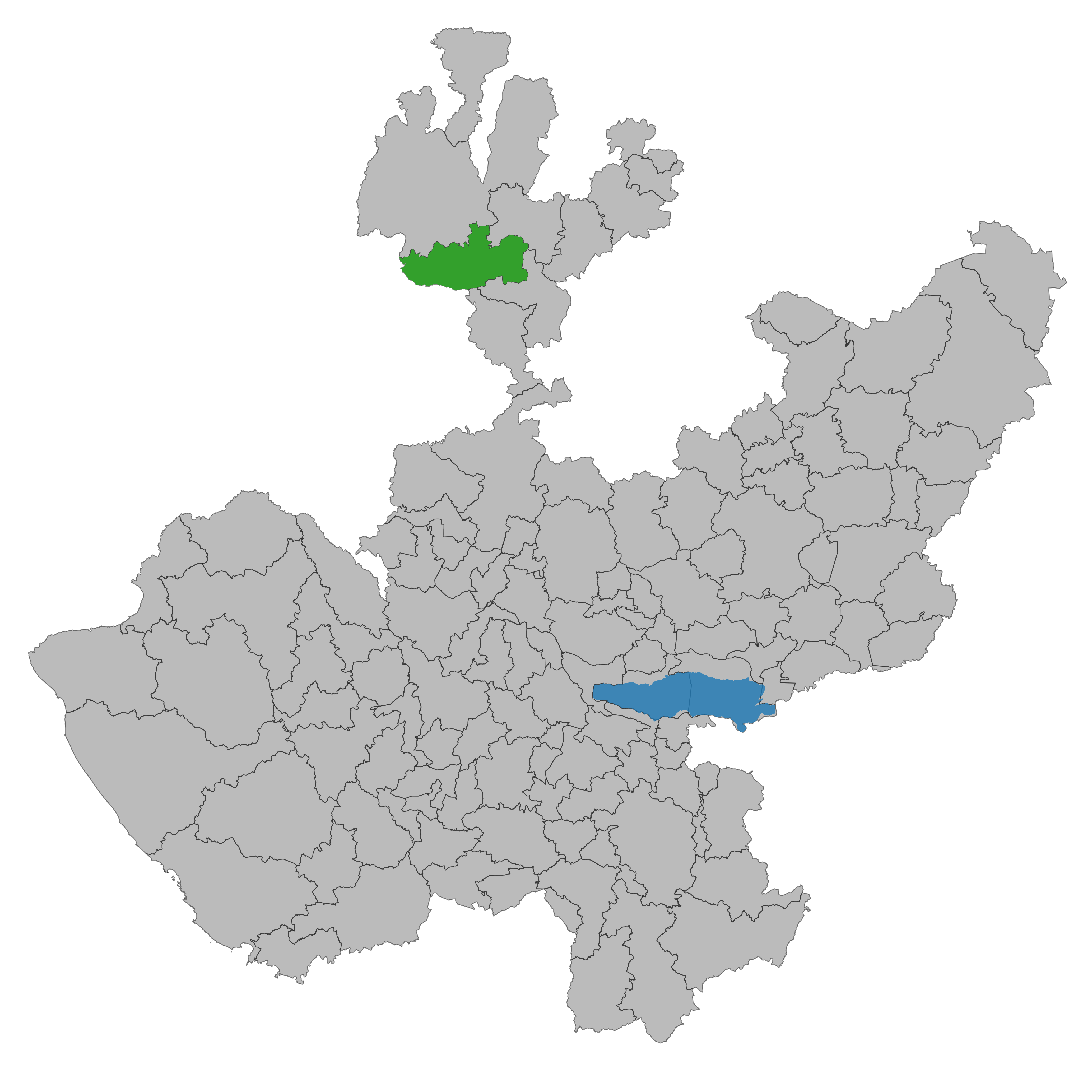 Municipality of Jalisco. Prepared with the software QGIS version 2.8.2 Wien & with information of SCINCE 2010 version 05/2013